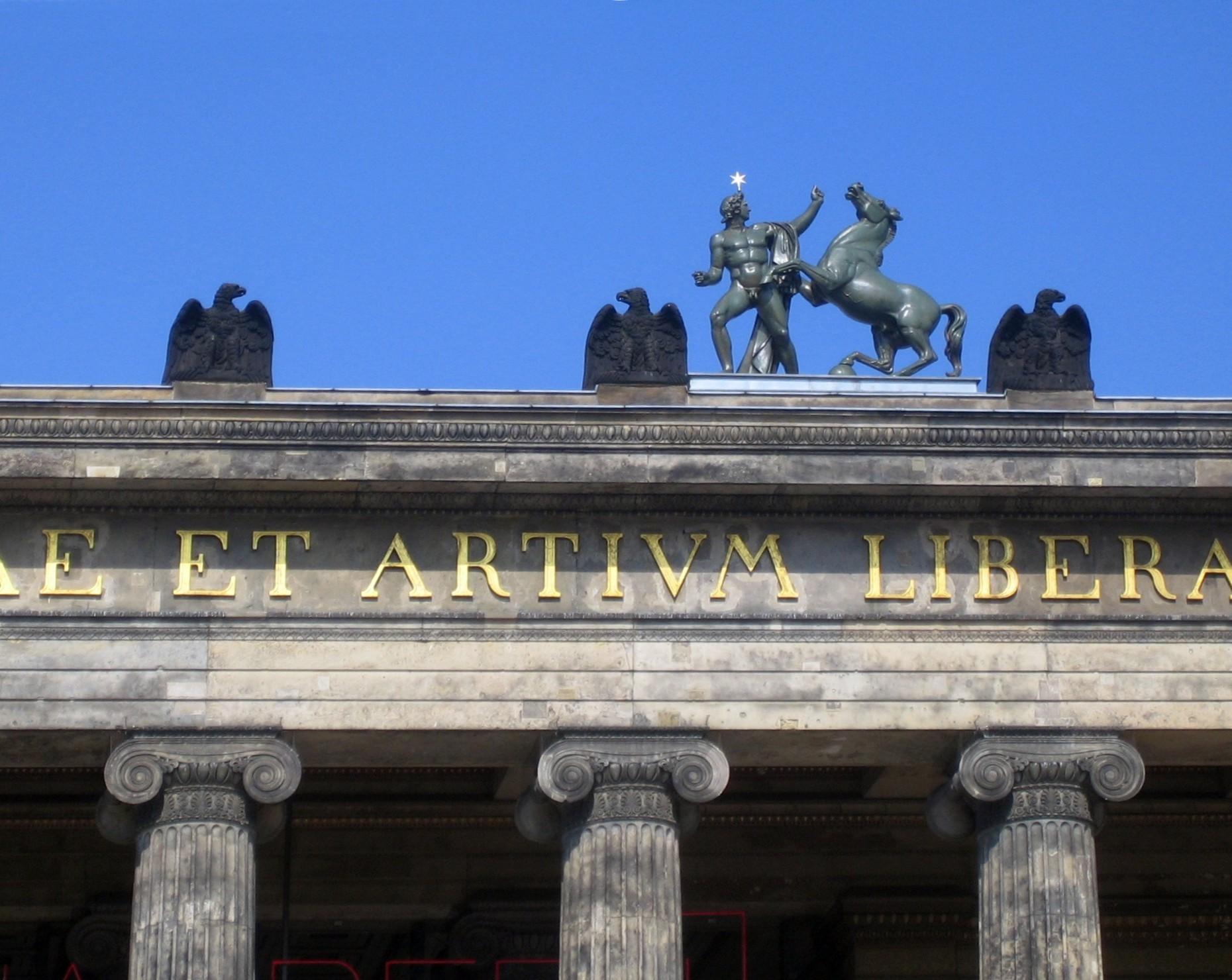 Berlin, Altes Museum (Old Museum). Detail of the building with sculptures created by Christian Friedrich Tieck..